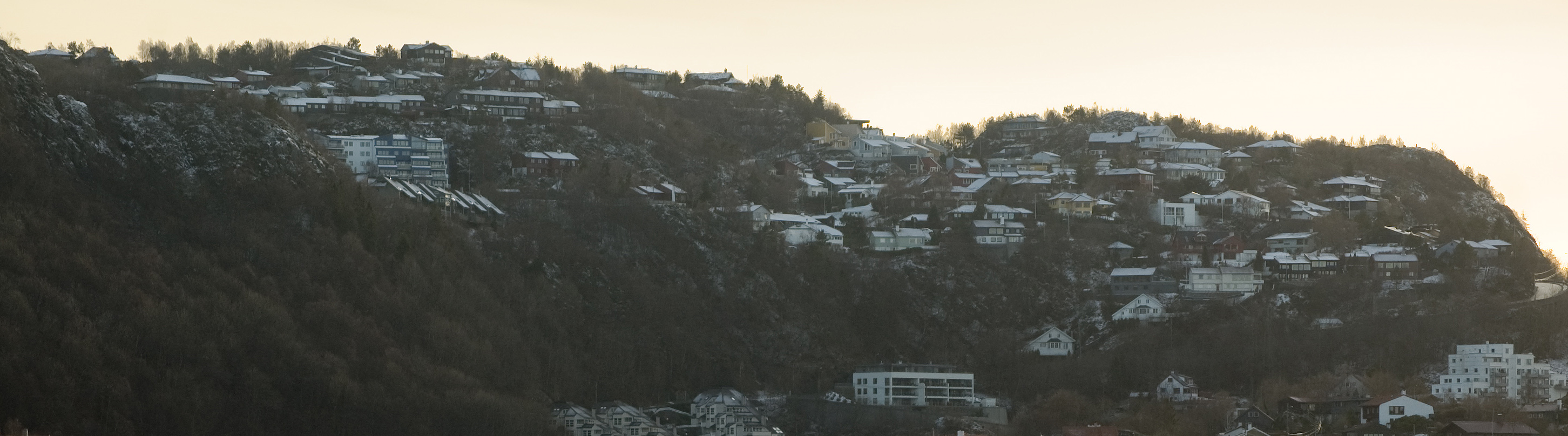 Nattlandsfjellet in Bergen, Norway. Crop of this photo.